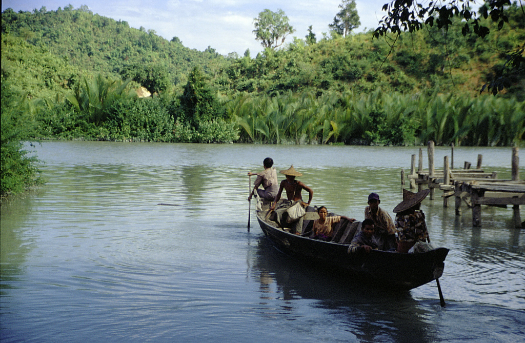 Chin village, Burma